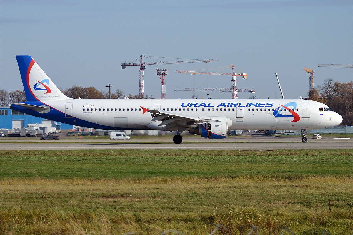 Ural Airlines, VQ-BOZ, Airbus A321-211